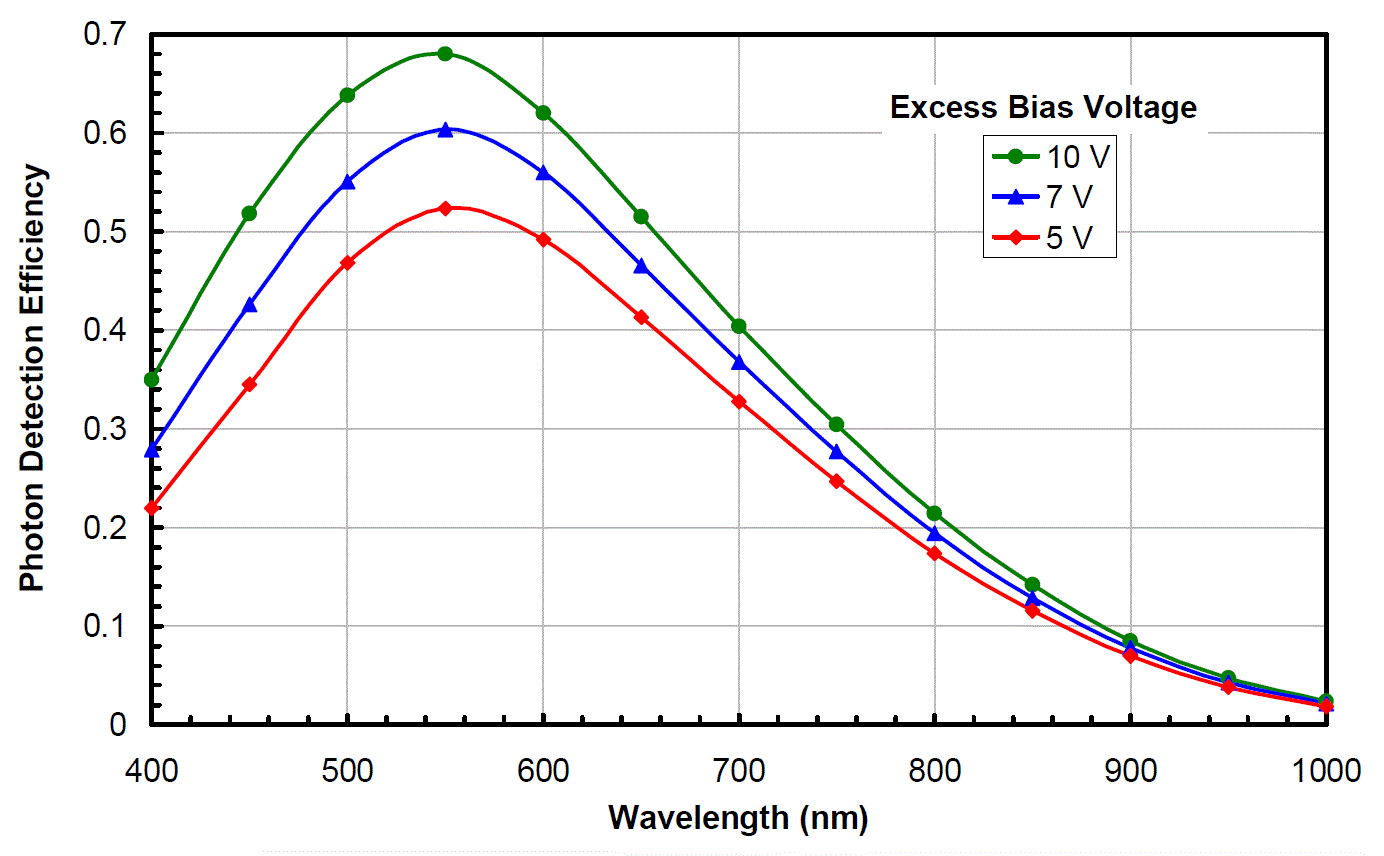 Esempio di efficienza quantica in funzione della lunghezza d'onda incidente e della sovratensione